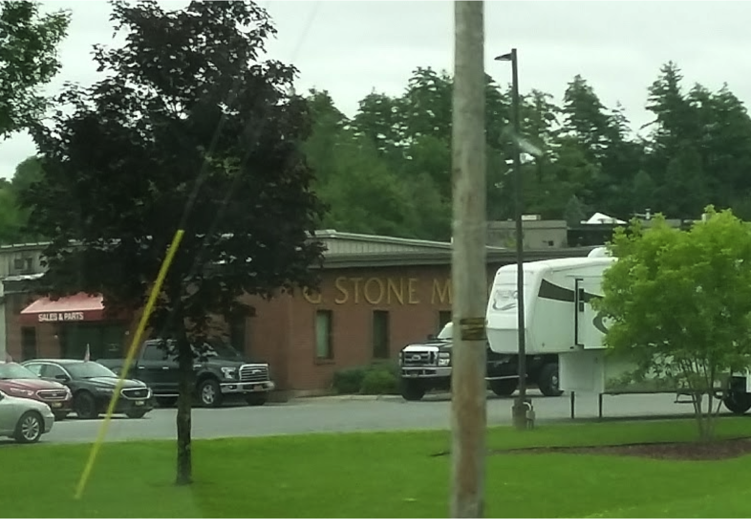 A slightly obstructed view of G. Stone Motors in Middlebury, Vermont, where Game Show Network's Family Trade was produced in 2013.